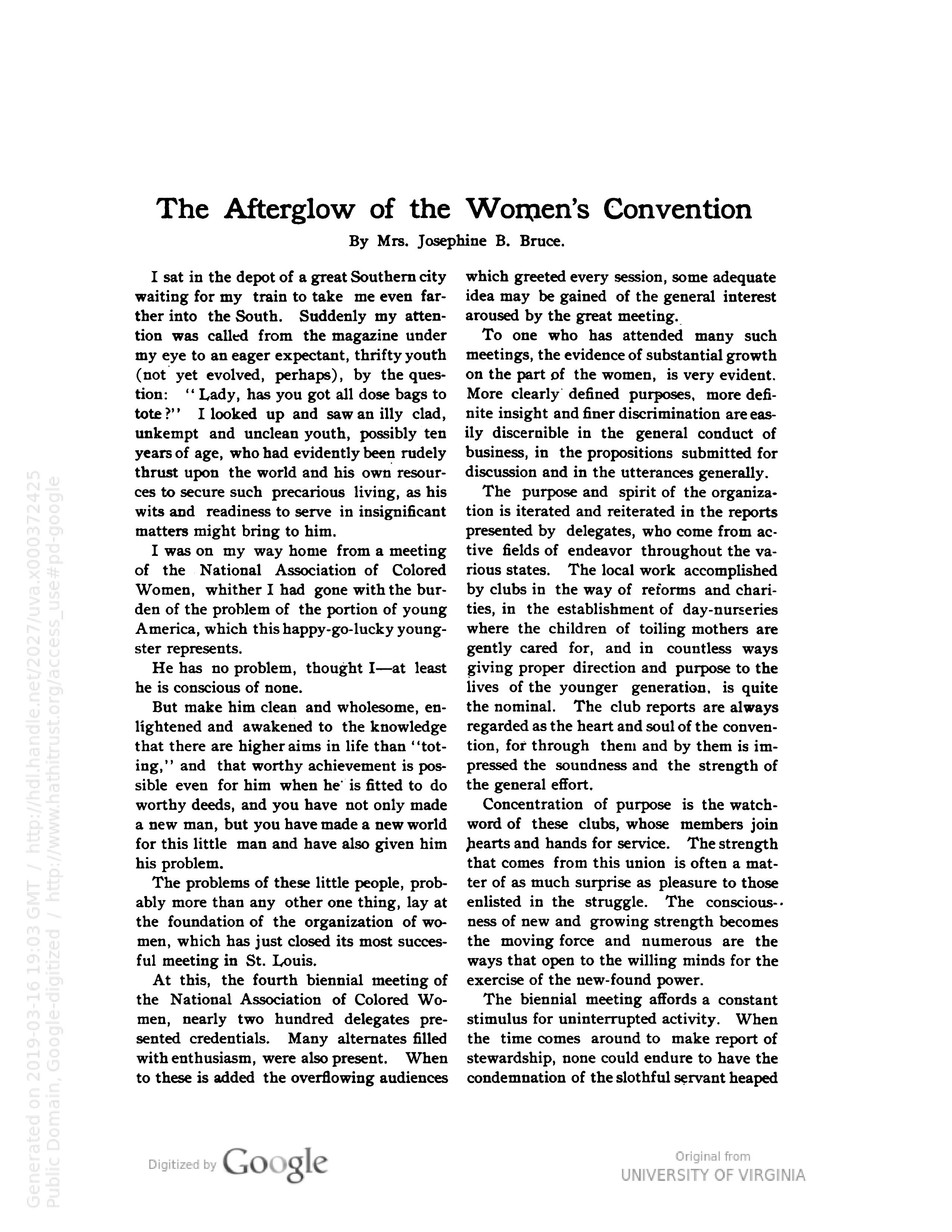 This file is the first page of Bruce's article about the progress early 20th century American women have made towards achieving equality and points out how far they have to go.